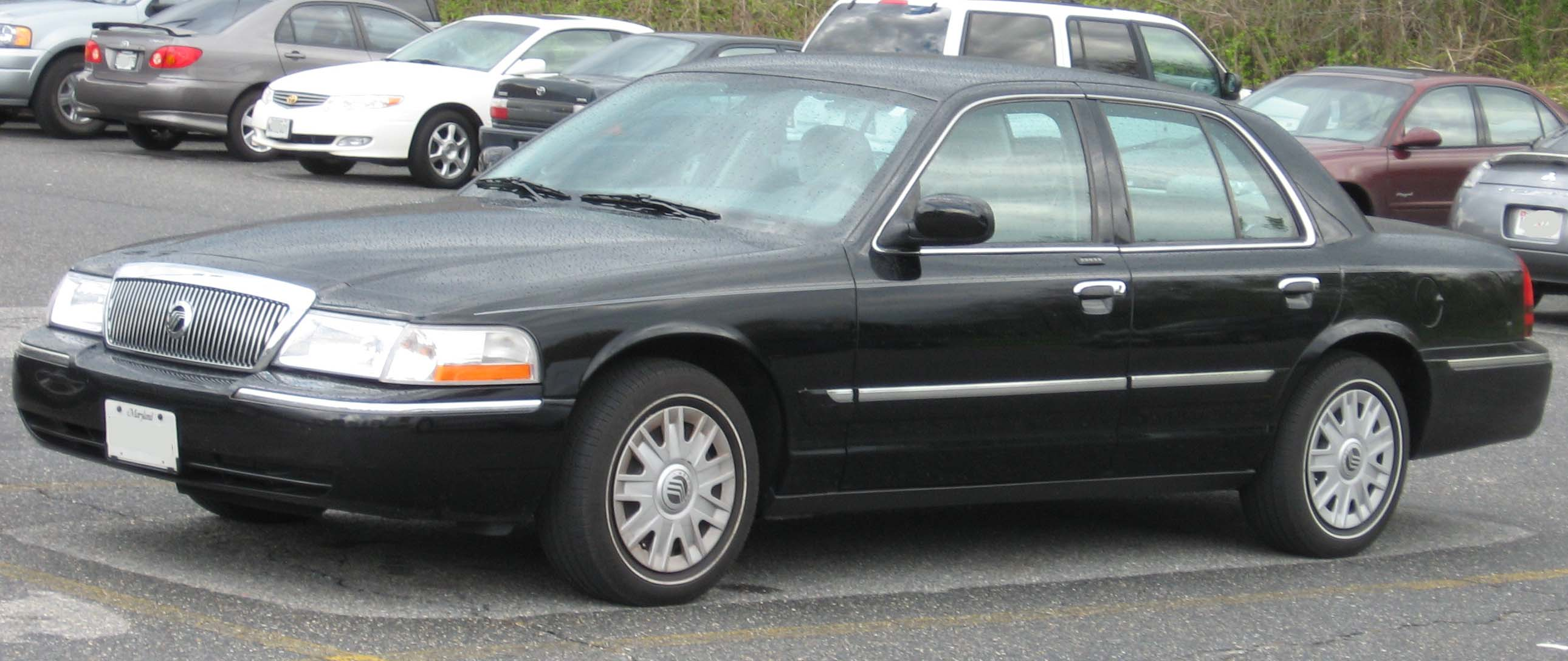 2003-2005 Mercury Grand Marquis photographed in USA.